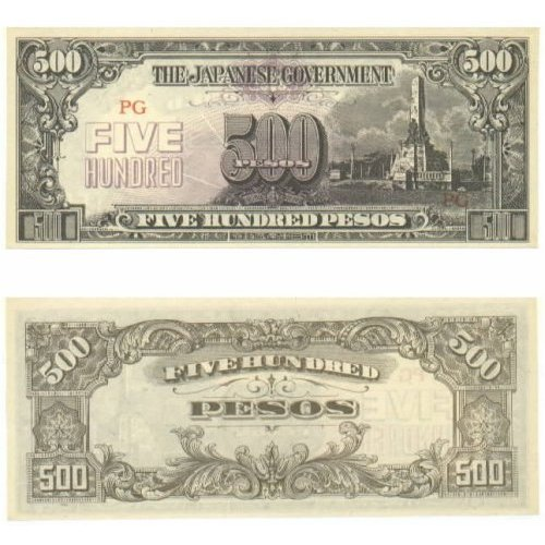 Japanese Invasion Money - 500 Pesos